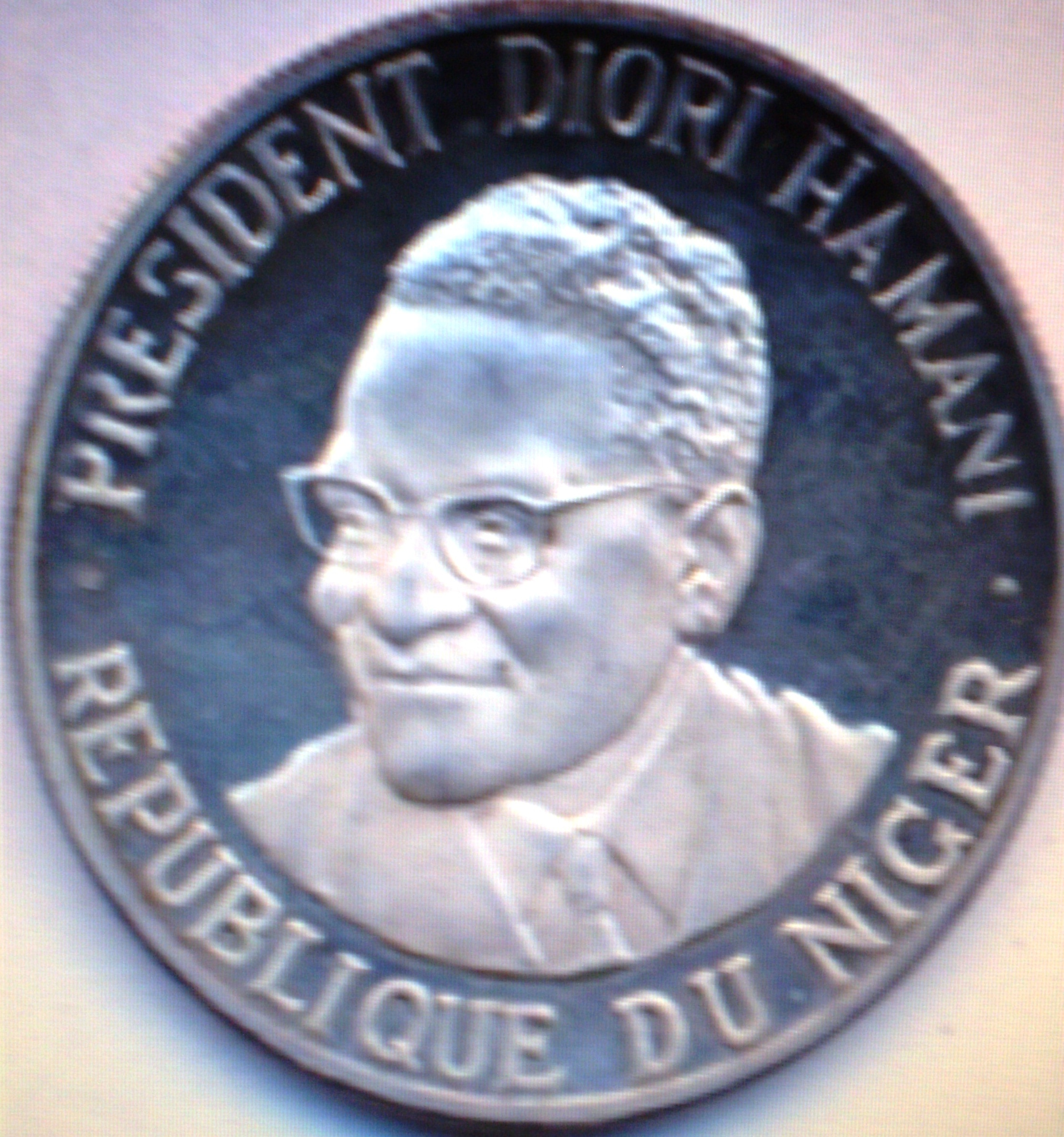 medal coin of 1000FF, with portrait of the first president of Niger, Hamani Diori